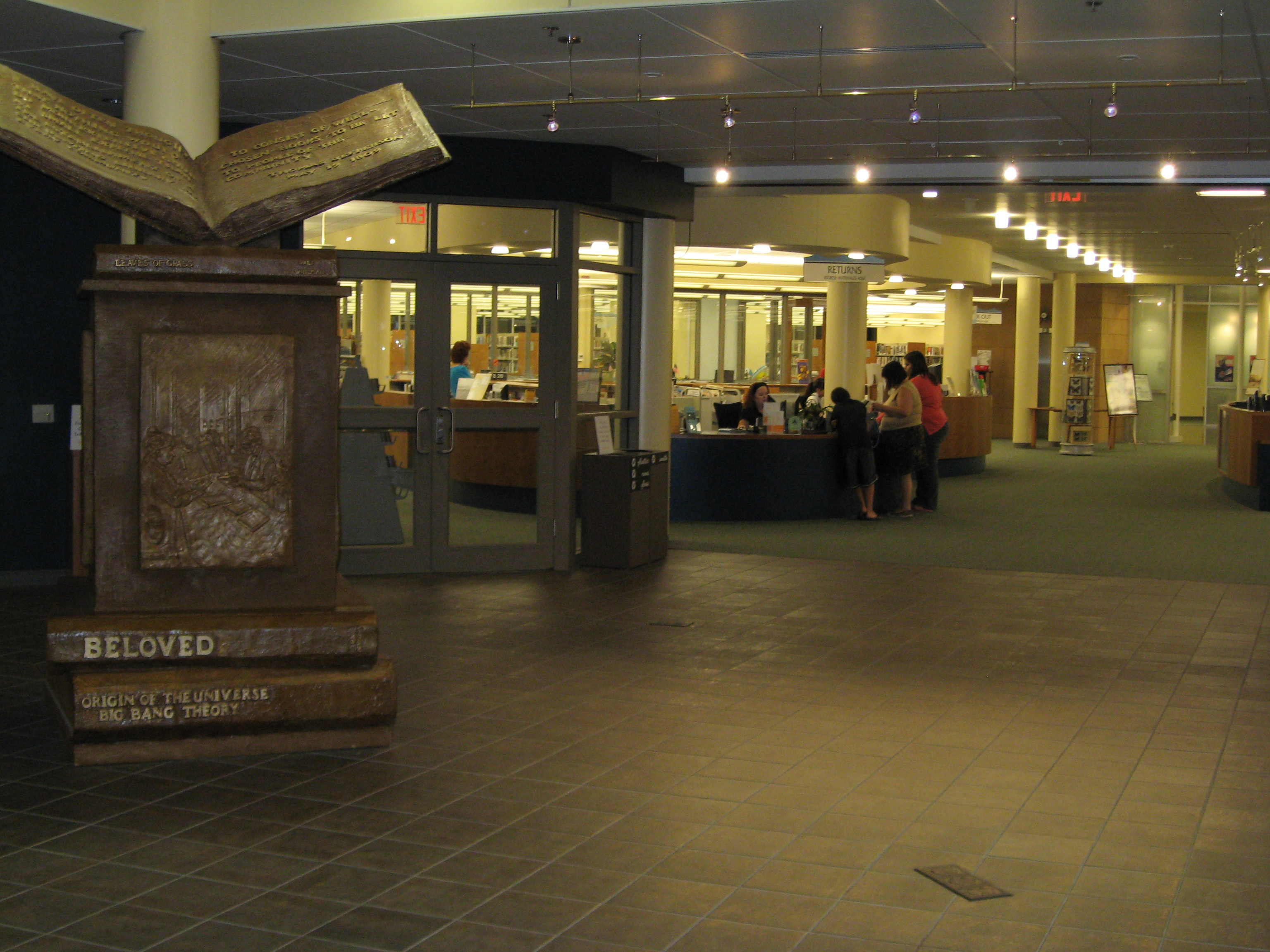 The entrance to the Toms River branch of the Ocean County Library and the circulation desk.